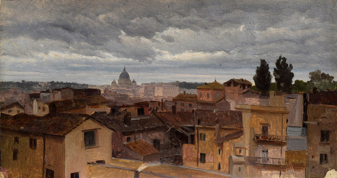 Rome from my Little Terrace by Pietro Sassi, oil on cardboard, 19 x 36 cm